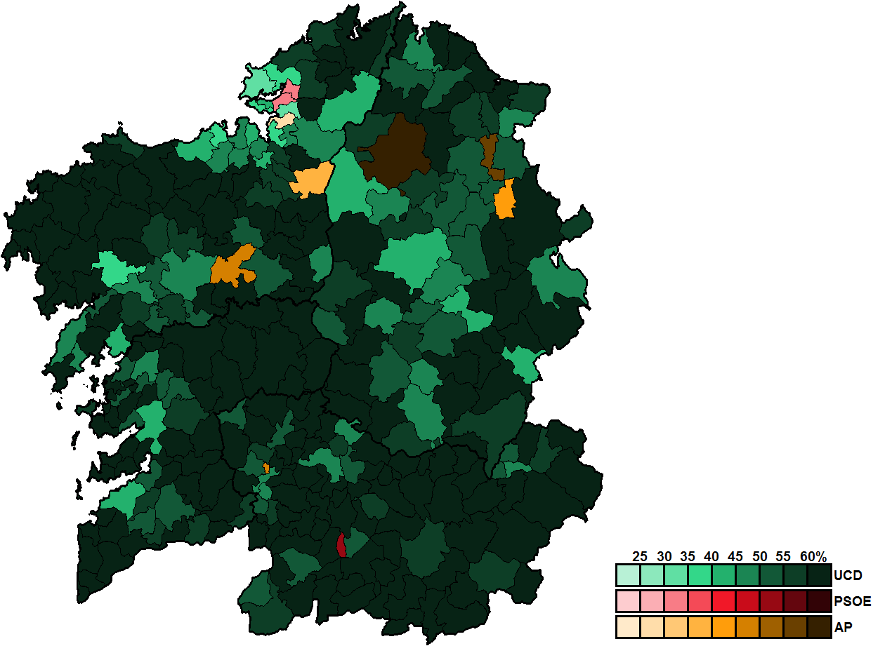 Most-voted party in Galicia municipalities, showing vote share obtained, in the Spanish general election, 1977.